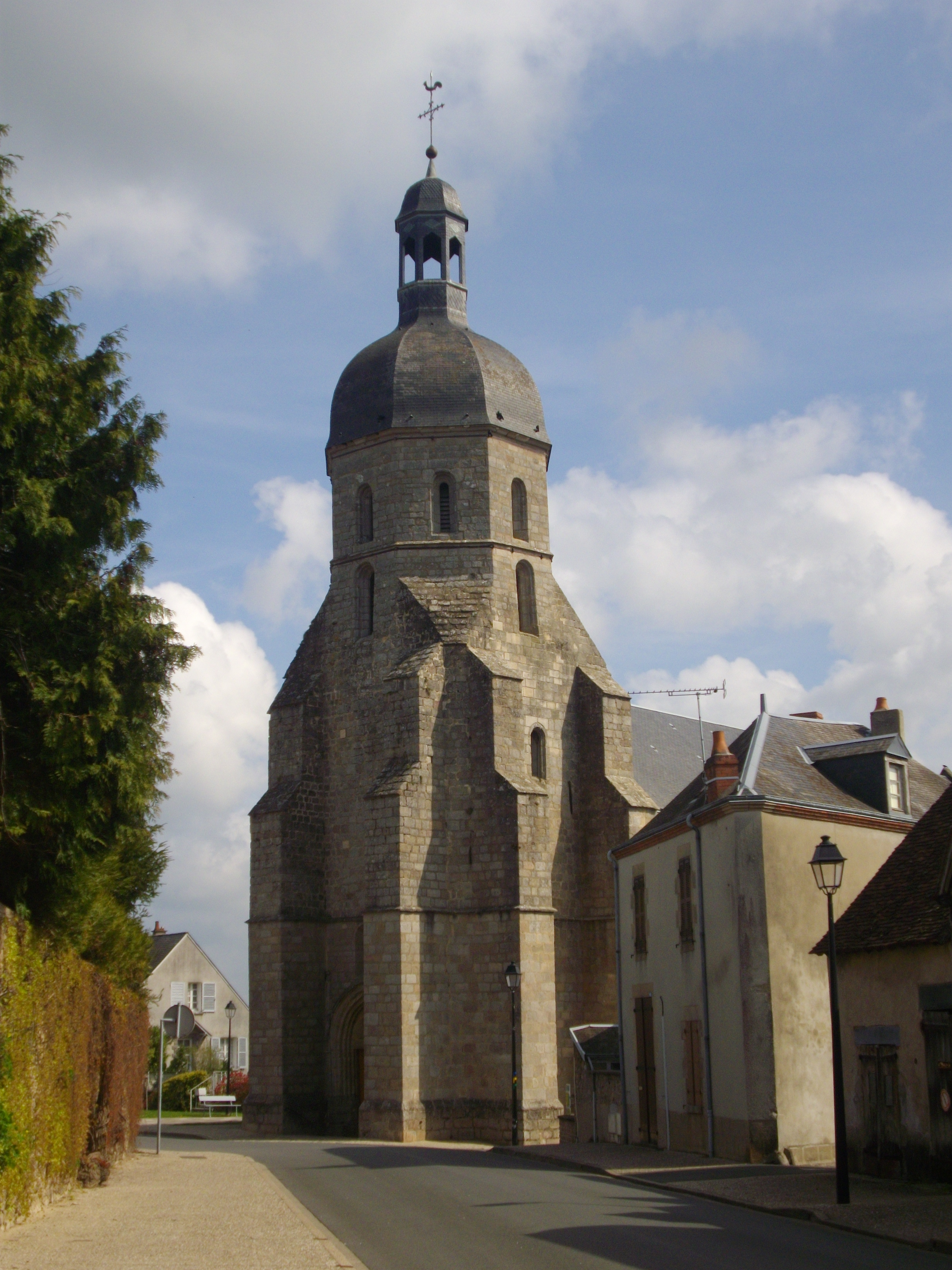 Our Lady church of Aigurande (Indre, France), from north-west